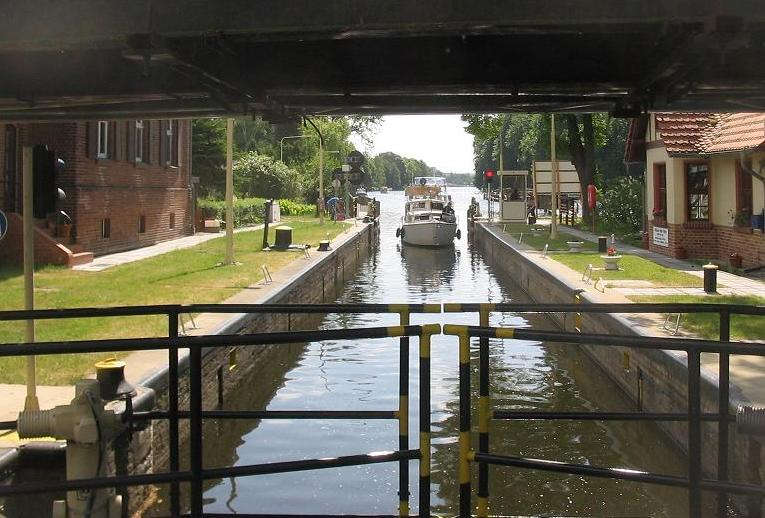 Dahme-Lock Neue Mühle in the village Neue Mühle, part of the town Königs Wusterhausen in the district Dahme-Spreewald, state Brandenburg, Germany.